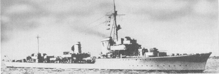 Photo of a German Zerstörer 1936A class destroyer, taken from the A503 FM30-50 booklet for identification of ships, published by the Division of Naval Inteligence of the Navy Department of the United States. This class was known by the Allies as the Narvik-class.